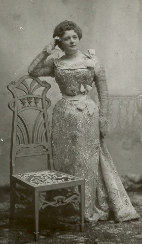 Opera vocalist Božena Kacerovská about 1905